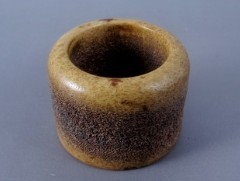 Fergetun, Manchu traditional thumb ring for archery